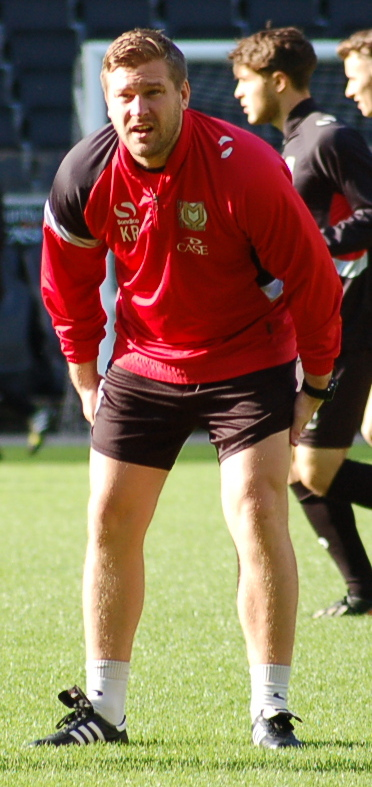 Karl Robinson during MK Dons open training on 29 October 2013.